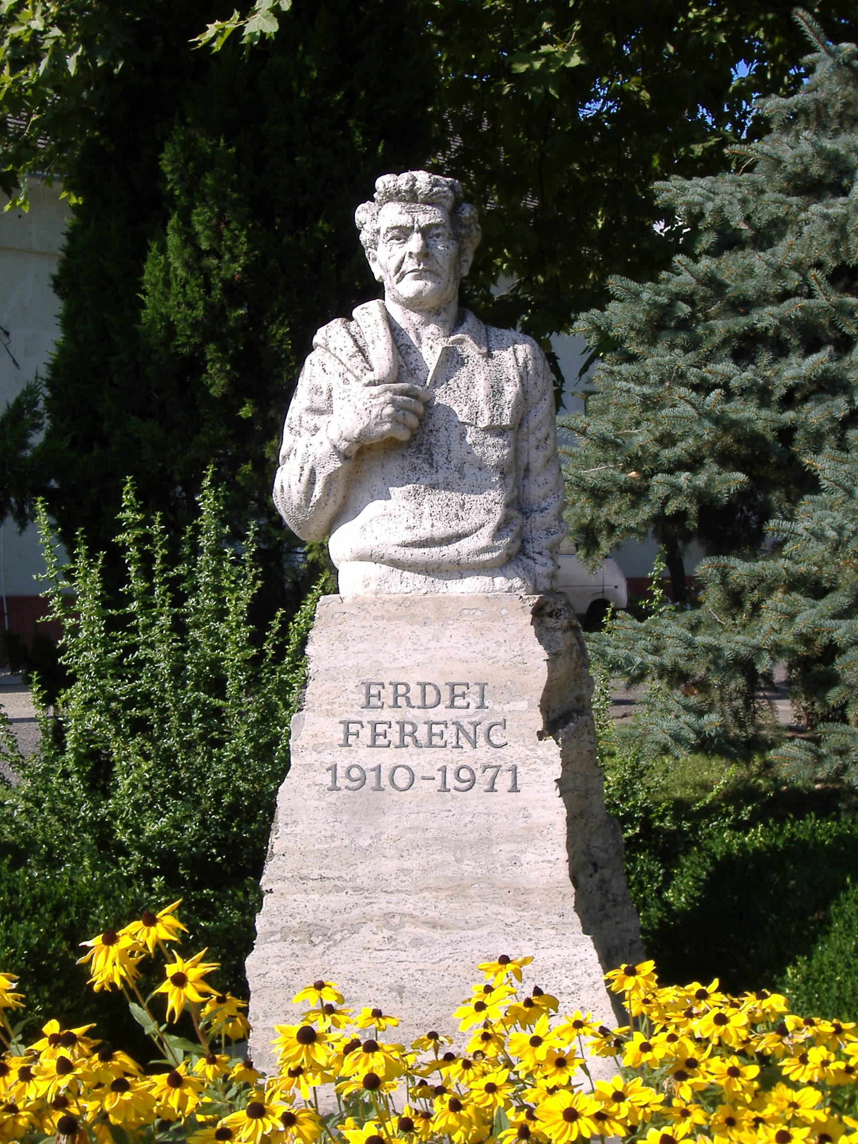 Statue of Ferenc Erdei, Hungarian sociologist, politician in Makó, Hungary.